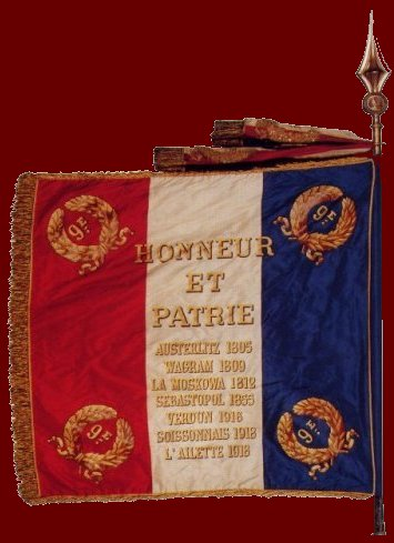 Flag of the 9e régiment d'infanterie de ligne (9th line infantry regiment) then the (9th regiment of paratroopers hunters) of French army, with its battles.